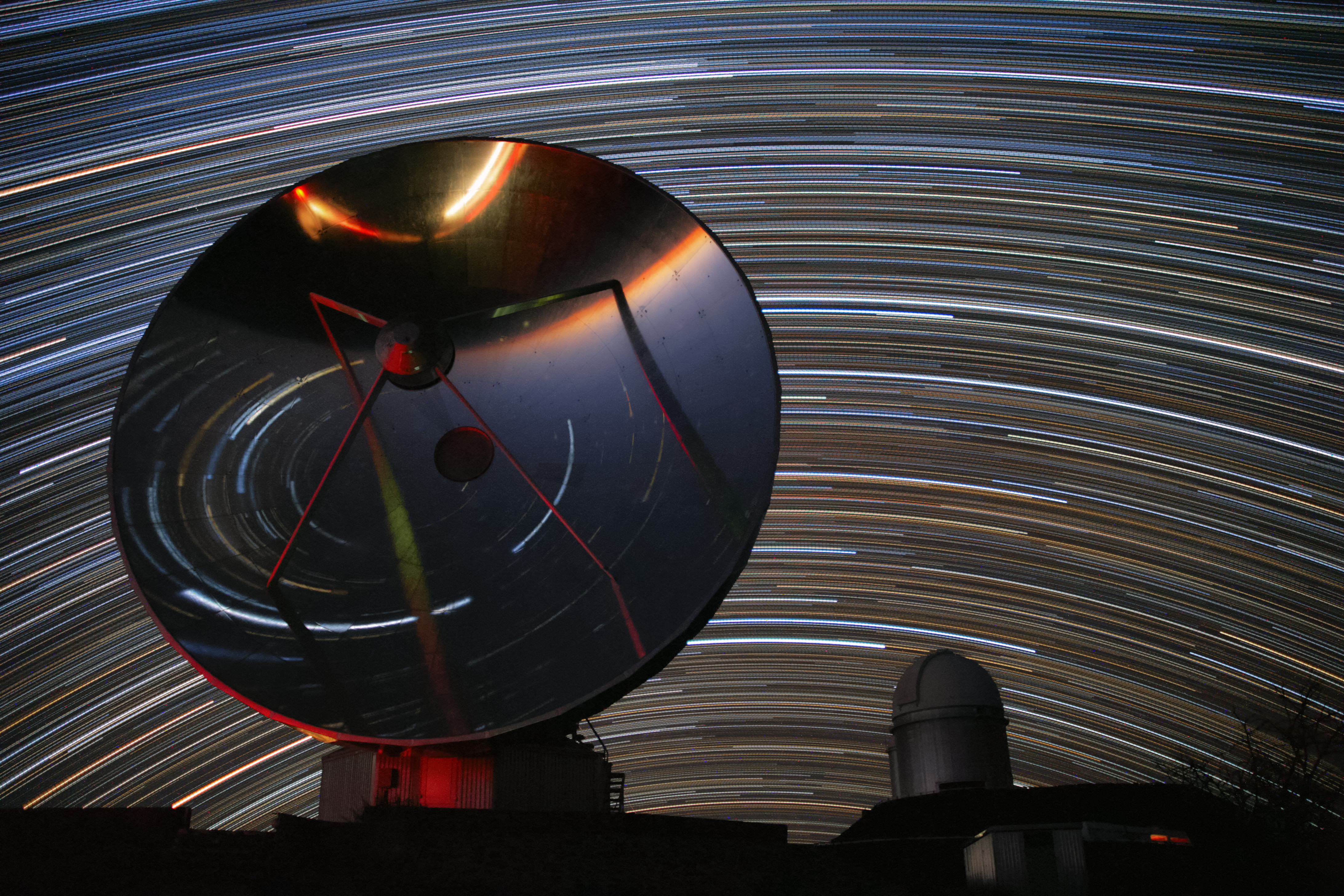 This image by ESO Photo Ambassador Alexandre Santerne shows the Swedish–ESO Submillimetre Telescope (SEST) on the left, alongside the ESO 3.6-metre telescope on the right. In the background bright star trails circle the La Silla Observatory where the telescopes are situated, in the outskirts of the Atacama Desert in Chile. Star trails like these are created by using a long exposure to capture the apparent motion of the stars in the night sky as the Earth rotates. This image is a composite of 250 consecutive one-minute exposures, spanning four hours. A flipped version of the star trails is also visible as a reflection in the dish of the telescope. The reflection also includes the red lights of a car passing by. La Silla is ESO’s first observatory and has been a major ESO stronghold since the 1960s. SEST was, at the time of construction, the only large submillimetre telescope in the southern hemisphere. Since it was decommissioned in 2003 SEST has been superseded by other submillimetre telescopes such as the Atacama Pathfinder Experiment telescope and the Atacama Large Millimeter/submillimeter Array, both located on Chile’s Chajnantor Plateau. The ESO 3.6-metre telescope is host to HARPS, the High Accuracy Radial velocity Planet Searcher — the world's foremost exoplanet hunter. Alexandre submitted this photograph to the Your ESO Pictures Flickr group. The Flickr group is regularly reviewed and the best photos are selected to be featured in our popular Picture of the Week series, or in our gallery.